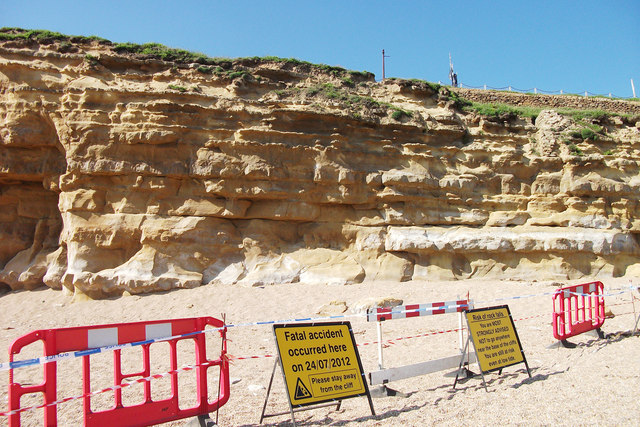 Cliffs on Burton Beach